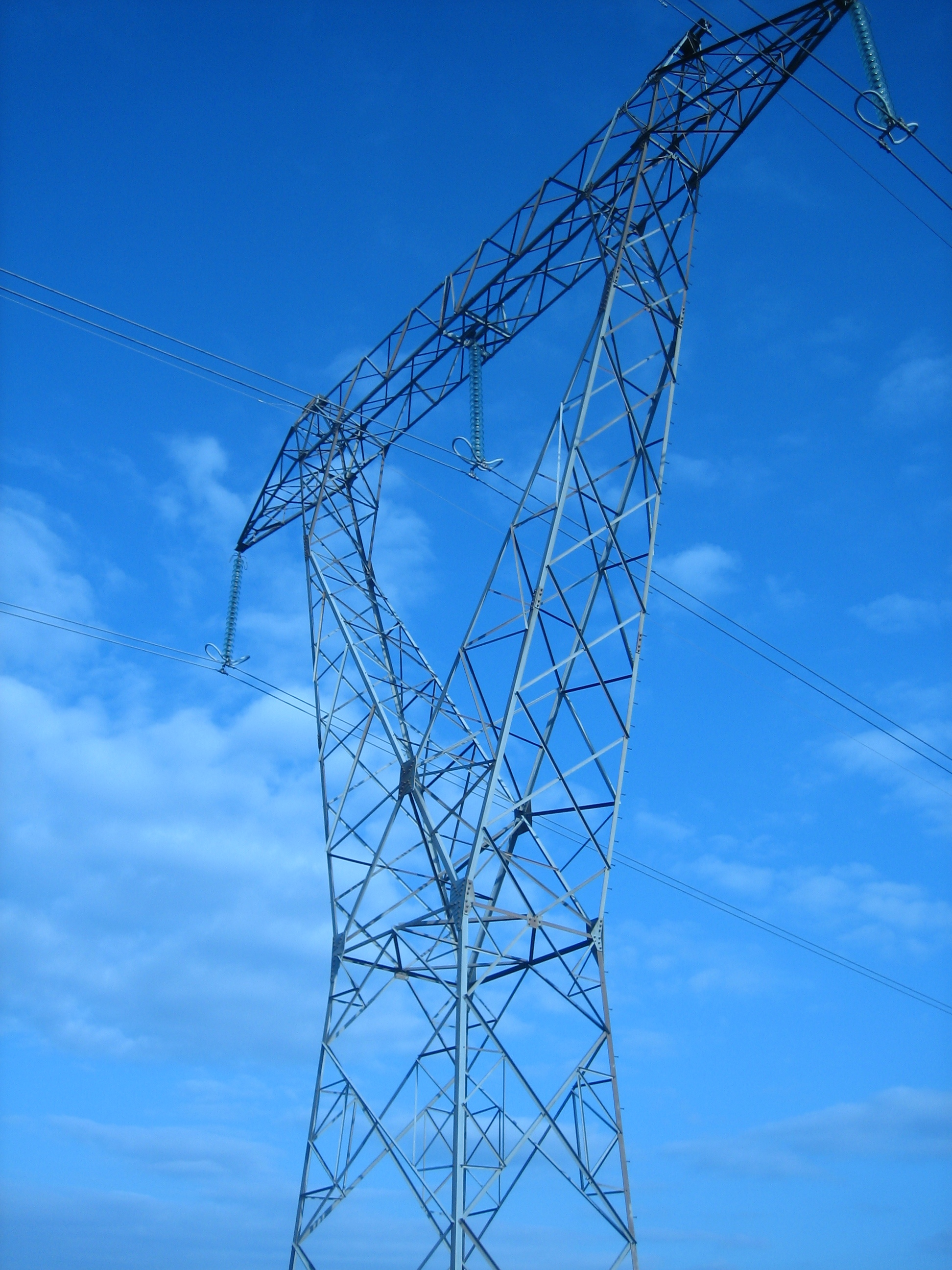 A delta pylon of a single-circuit HVAC power line in Croatia